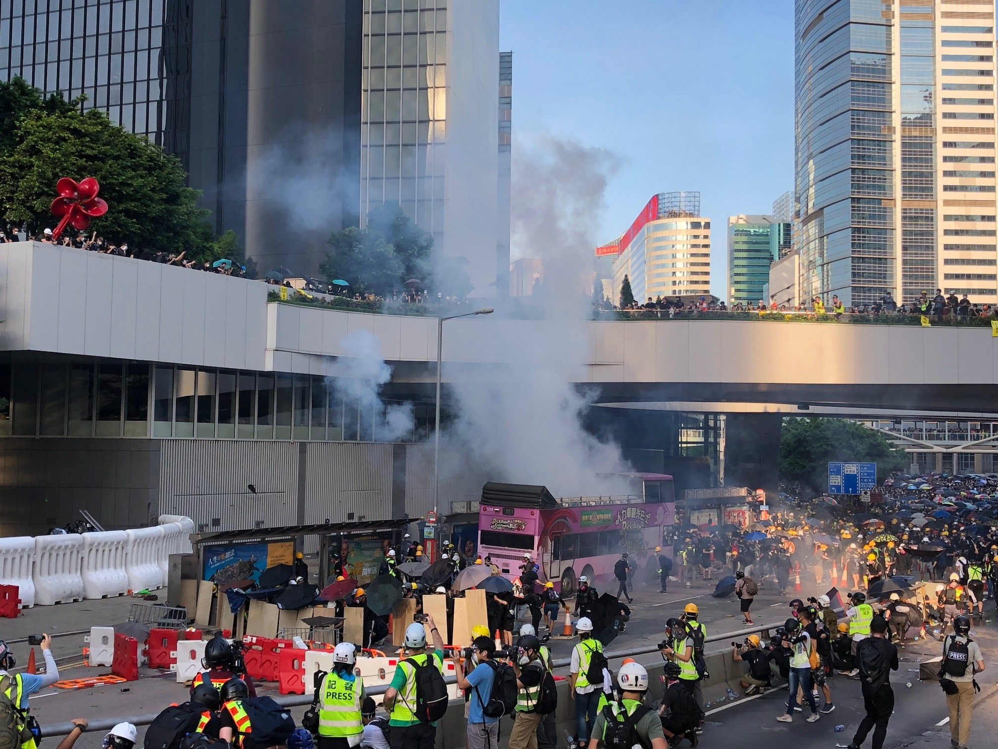 Police firing tear gas to protesters near Central Government Headquarters.